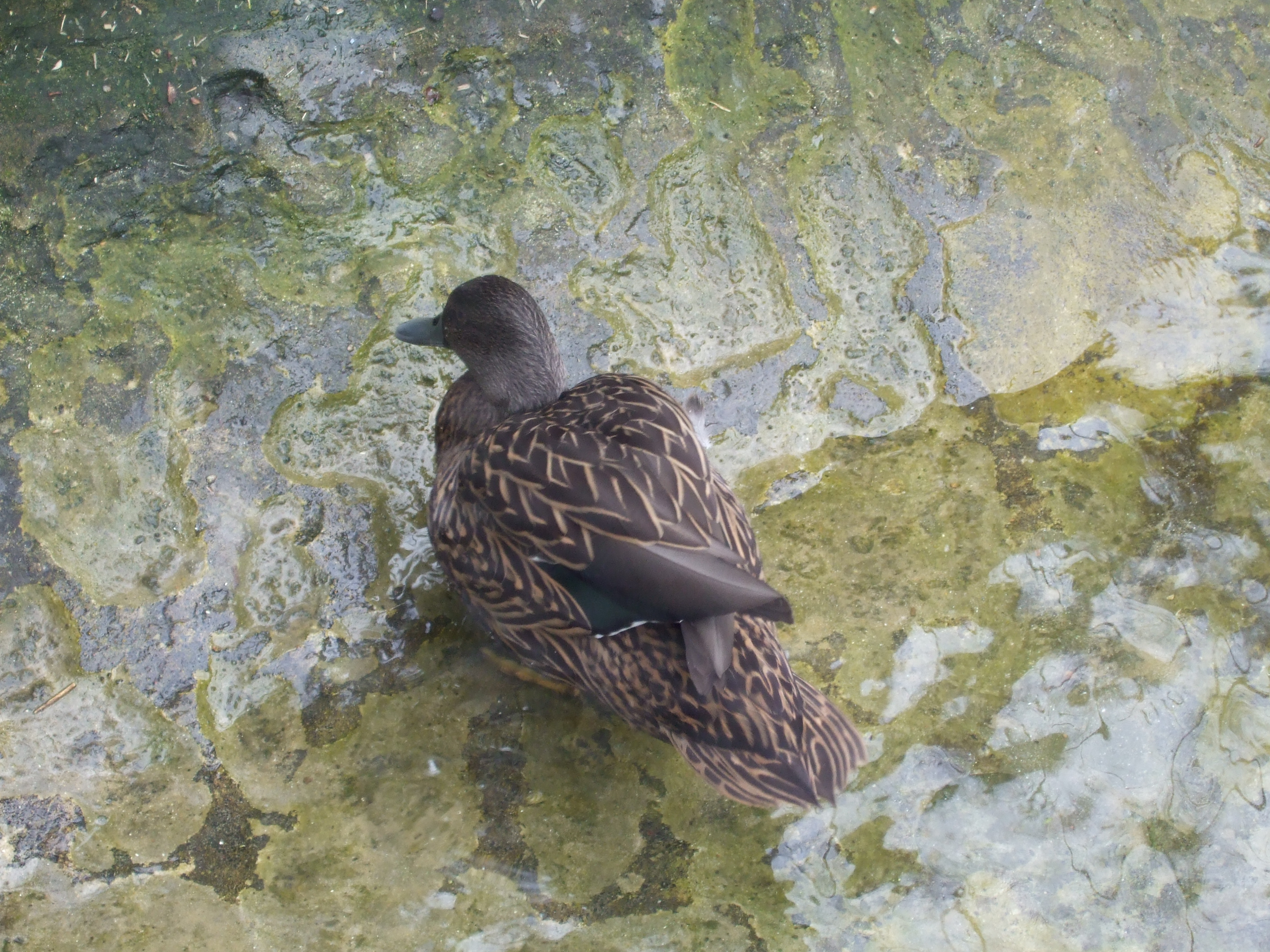 Meller's Duck at Jersey Zoo, UK.